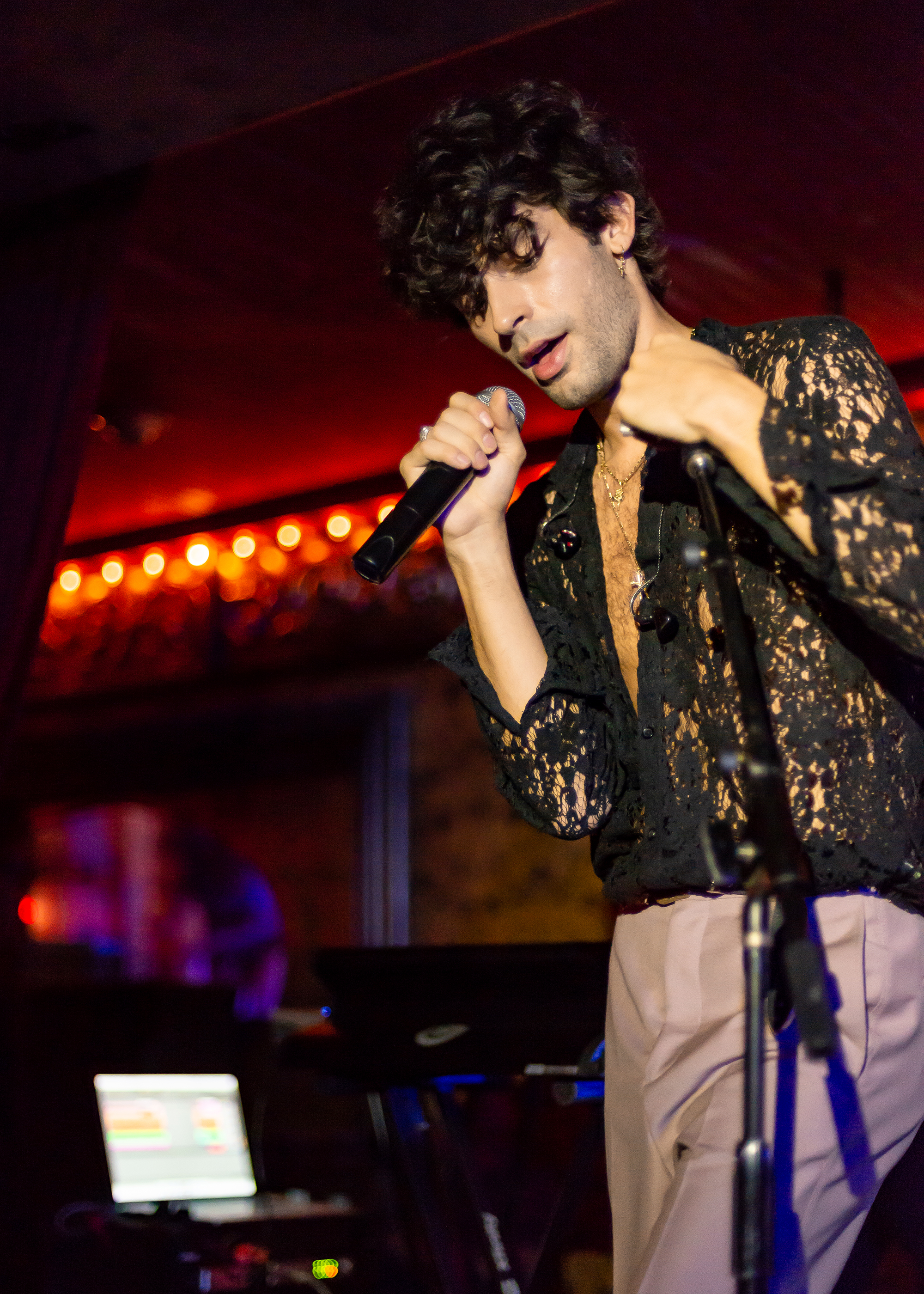 Valentina, Minke, and Bobi Andonov performing live at "Bano Flaco: Castaway" at Madame Siam, presented by Live Nation's Ones To Watch.